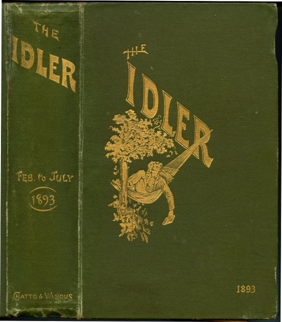 Cover for bound volumes of the British magazine "The Idler" 1892 onwards.